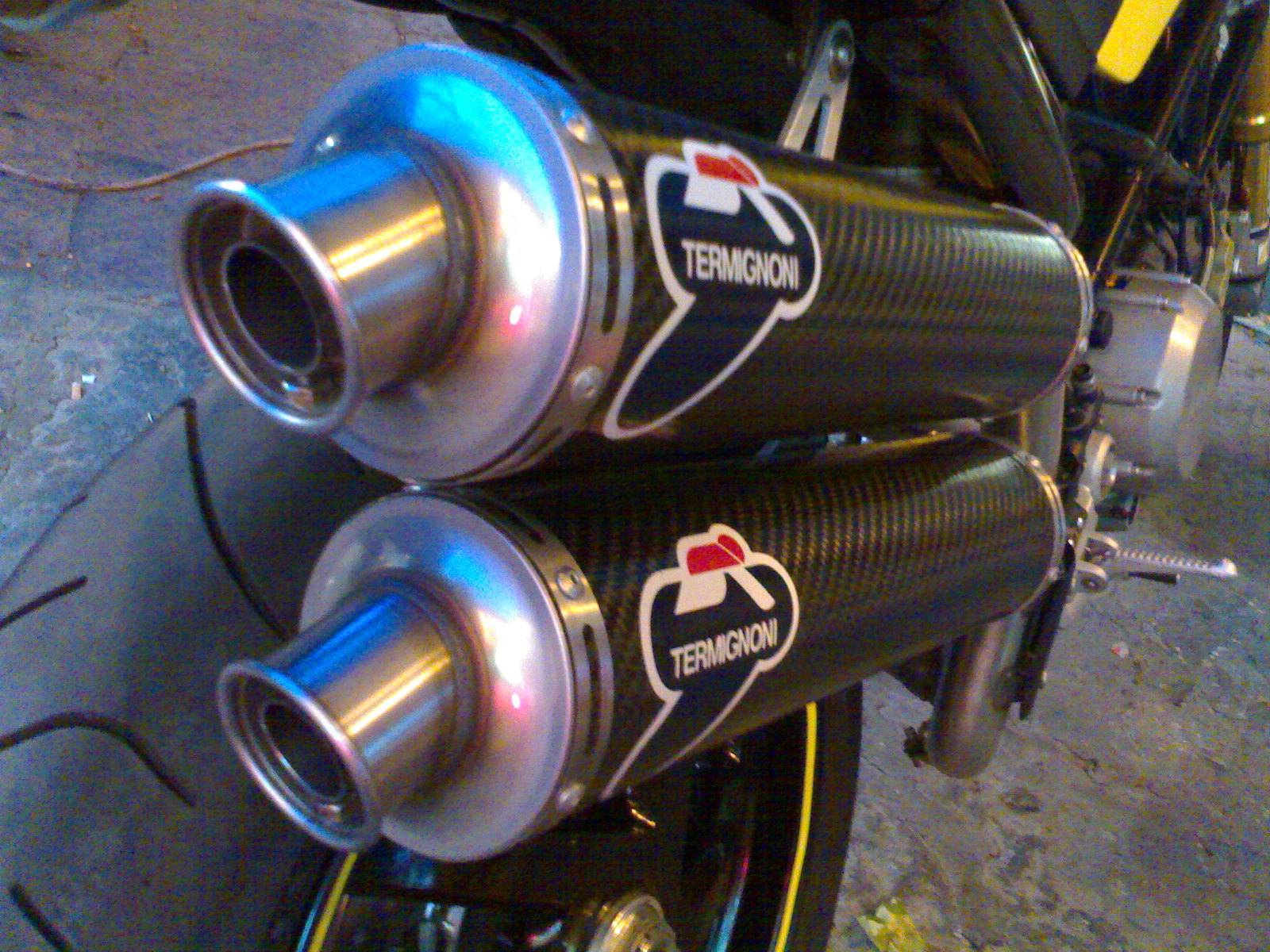 Termignoni exhaust system for Ducati Monster S2R 800, only for race